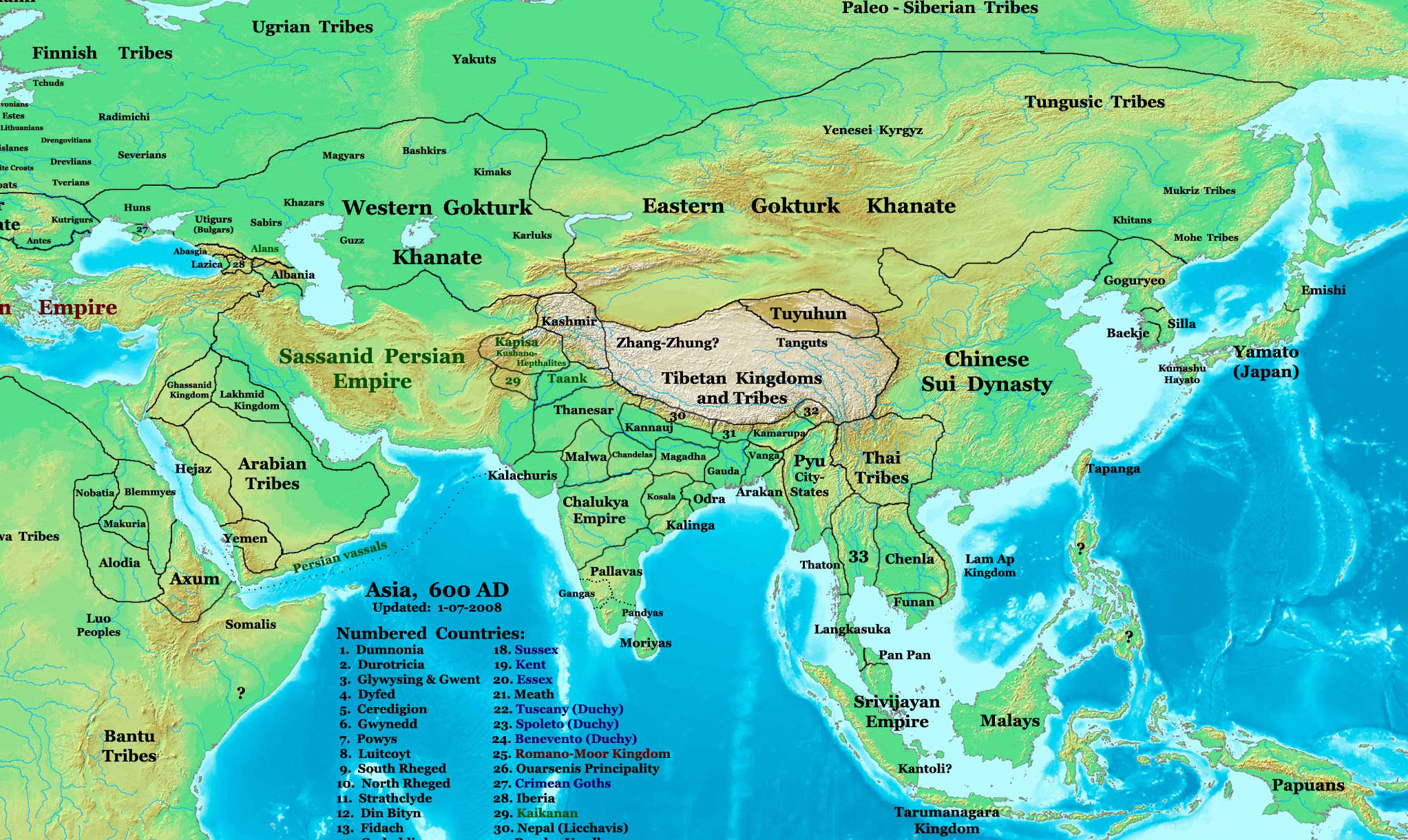 This image is a zoomed-in version of Eastern Hemisphere in 600 AD. thumb|300px|left|Eastern Hemisphere in 600 AD. Author: Thomas A. Lessman. Source URL: Image was created by me (Thomas Lessman) based on map of Eastern Hemisphere in 600 AD. Image is free for public and/or educational use. I would appreciate a mention if this image is used elsewhere. If anyone is interested in helping further this work, please contact Thomas Lessman at . Other Historical Maps by Thomas Lessman 1. en: 500 BC. 2. en: 323 BC. 3. en: 200 BC. 4. en: 100 BC. 5. en: 050 BC. 6.en: 001 AD. 7. en: 050 AD. 8. en: 100 AD. 9. en: 200 AD. 10. en: 300 AD. 11. en: 400 AD. 12. en: 475 AD. 13. en: 476 AD. 14. en: 477 AD. 15. en: 500 AD. 16. en: 565 AD. 17. en: 600 AD. 18. en: 700 AD. 19. en: 800 AD. 20. en: 900 AD. 21. en: 1025 AD. 22. en: 1100 AD. 23. en: 1200 AD.